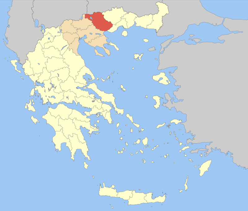 Locator map of Srres prefecture (Νομός Σερρών) in Greece